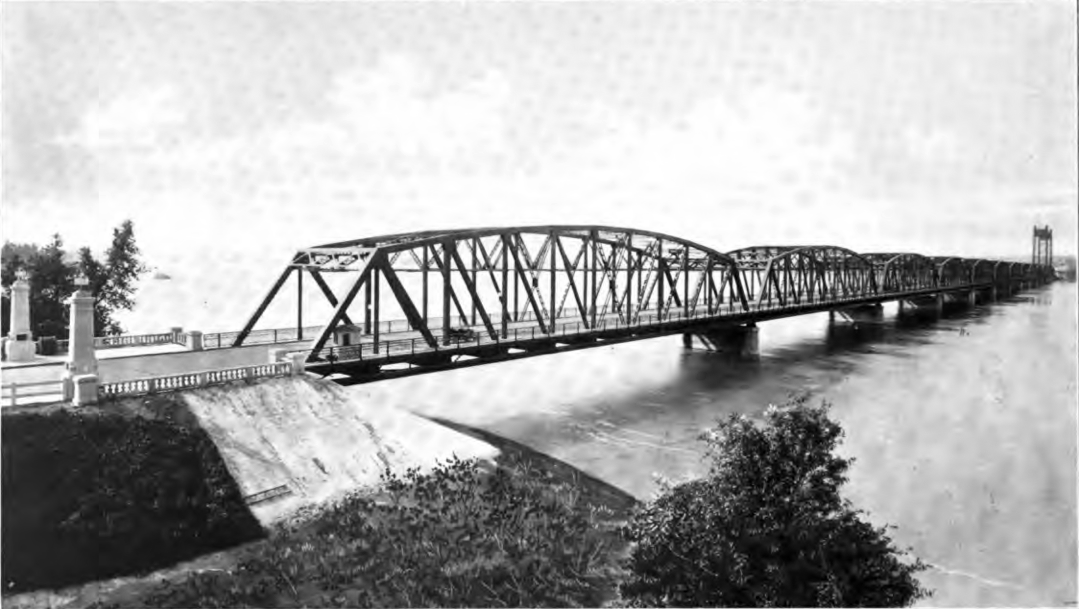 Photo of the Interstate Bridge from the 1918 Final Report on its construction